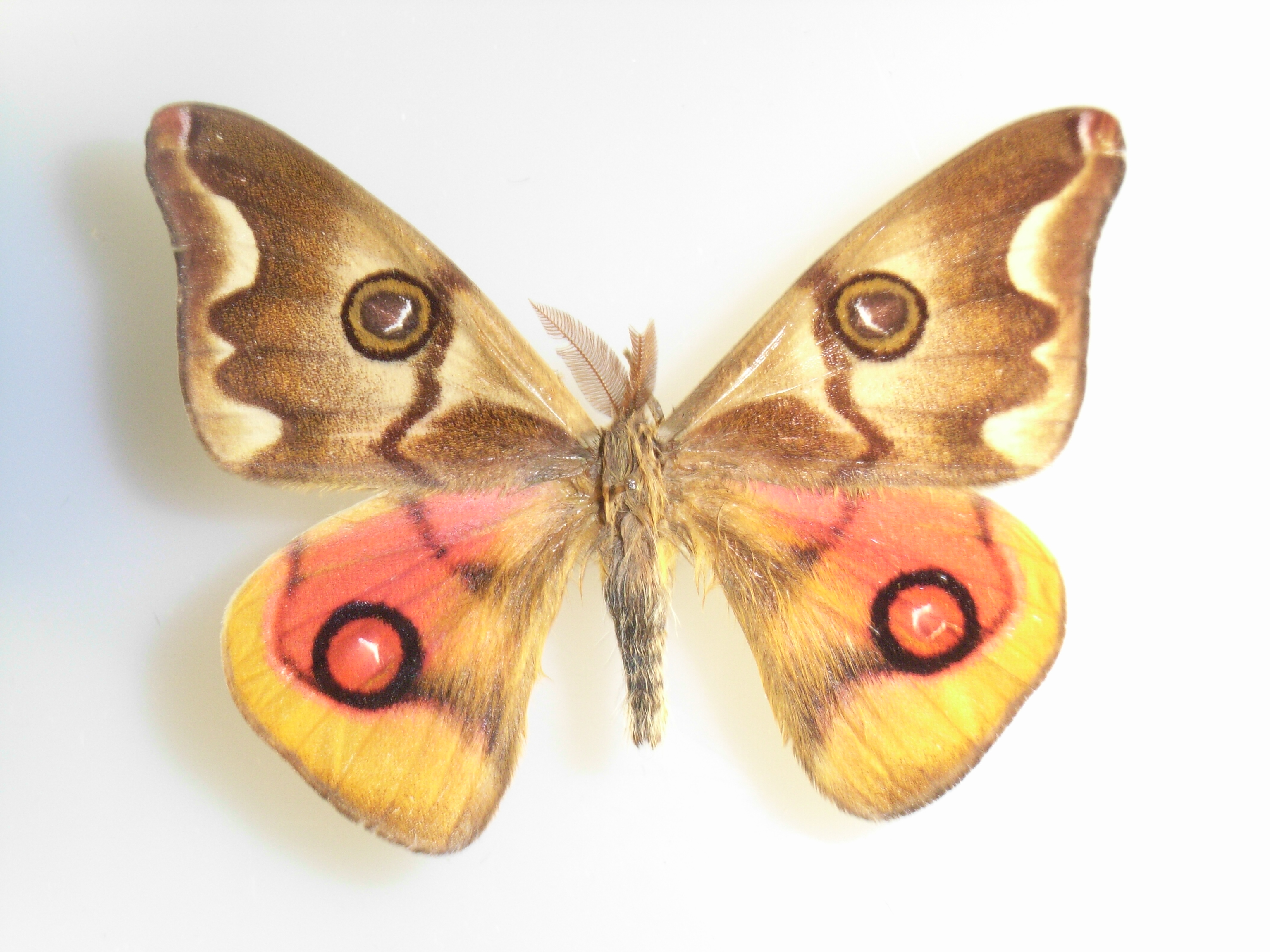 Polythysana cinerascens (Philippi, 1859)Ex coll. Felix Stumpe